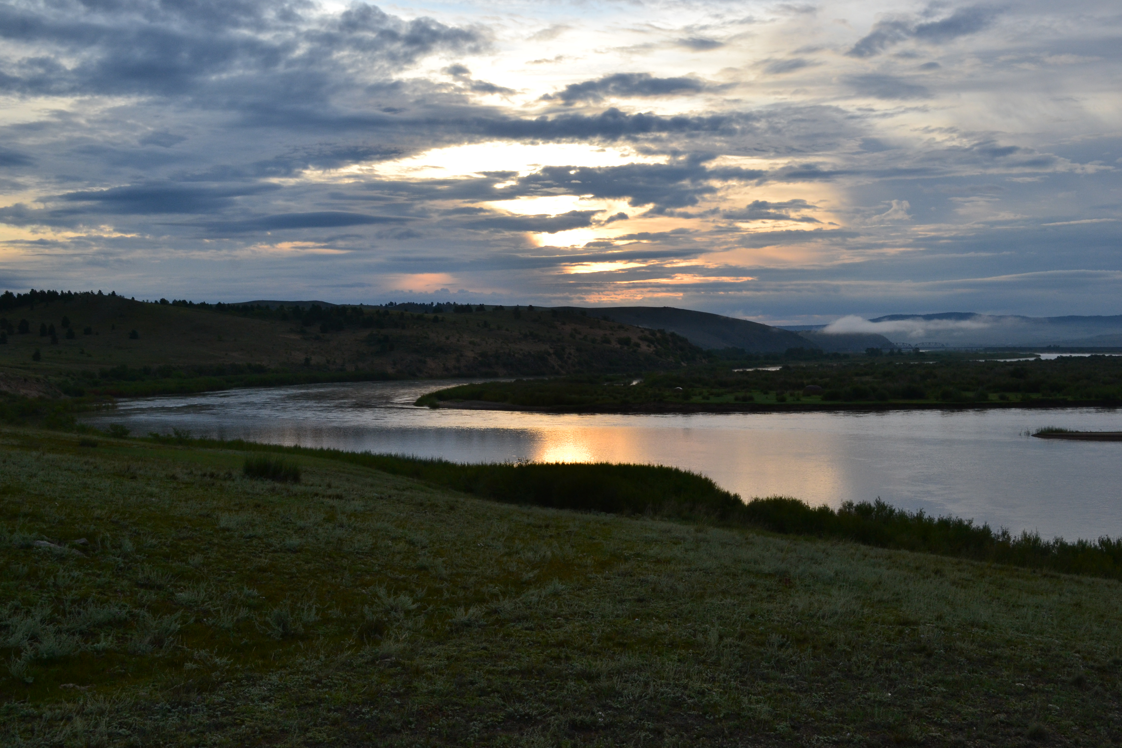 Рассвет на Селенге в окрестностях Цаган-Усуна